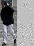 last plane : Frontier Airlines Center (Convention Center) 5th and Wisconsin Ave. Built: 1998